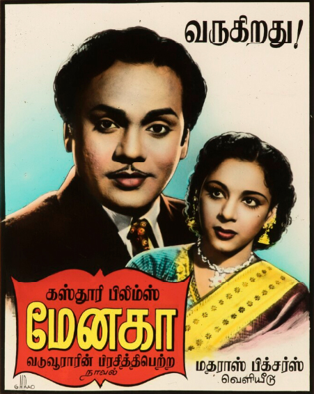 Poster